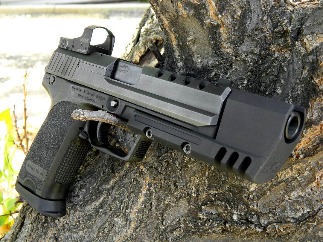 This is a highly modified Hk USP 45 done by Adam Rogers. The slide has had extensive weight reduction. The rear of the slide has been recessed for the mounting of a Burris Fastfire 3. The trigger has been modified for a light pull. The recoil springs have been changed to accommodate the lighter slide. The aluminum reproduction Match Weight and Jarvis barrel were both made and fit for this regular USP 45 to give it a "Match" look. This is a very cool, very unique, awesome, custom USP.